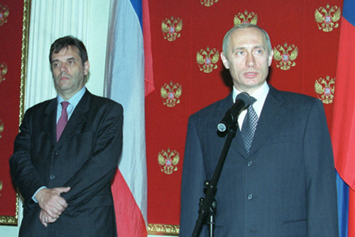 THE KREMLIN, MOSCOW. Vladimir Putin and President of the Federal Republic of Yugoslavia Vojislav Kostunica at a joint news conference.